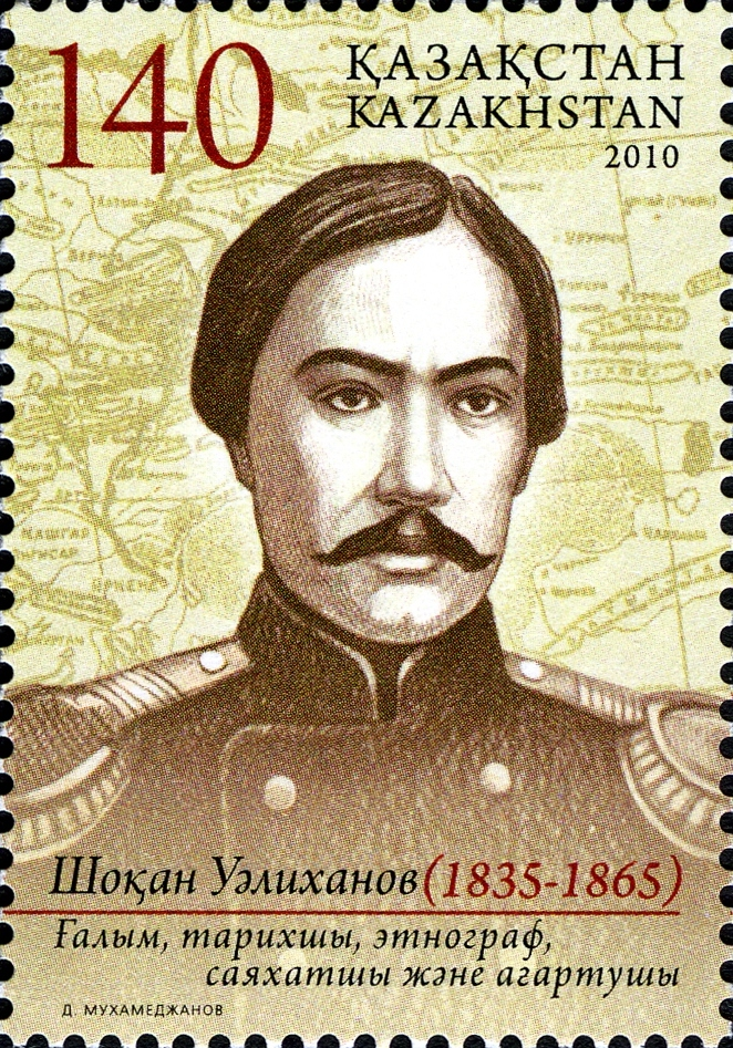 Stamps of Kazakhstan